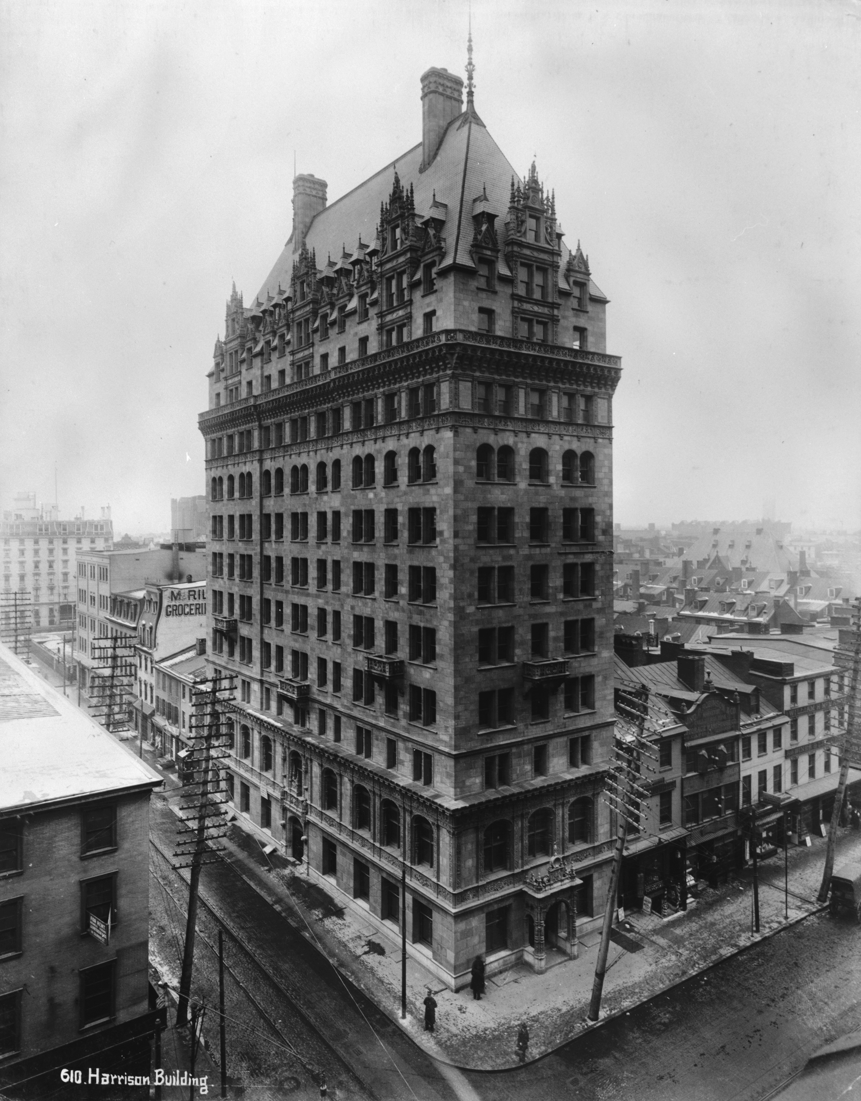 Alfred Craven Harrison Building, 4 South 15th Street, Philadelphia, Pennsylvania (1894-95, demolished 1969), Walter Cope & John Stewardson, architects.